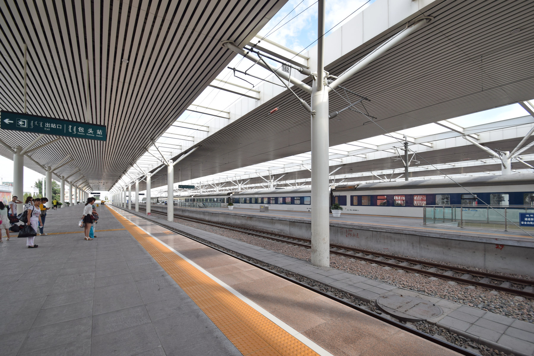 Platforms of Baotou Railway Station